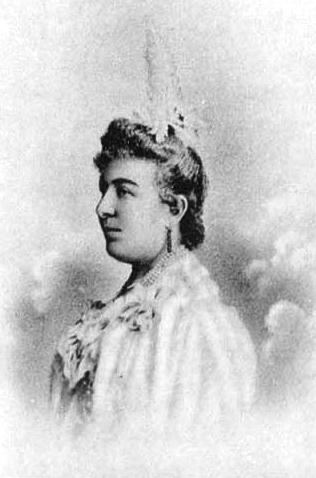 Nobility from Georgia. Illustration from Letopis' Gruzii, edited by B. Esadze, 1913.